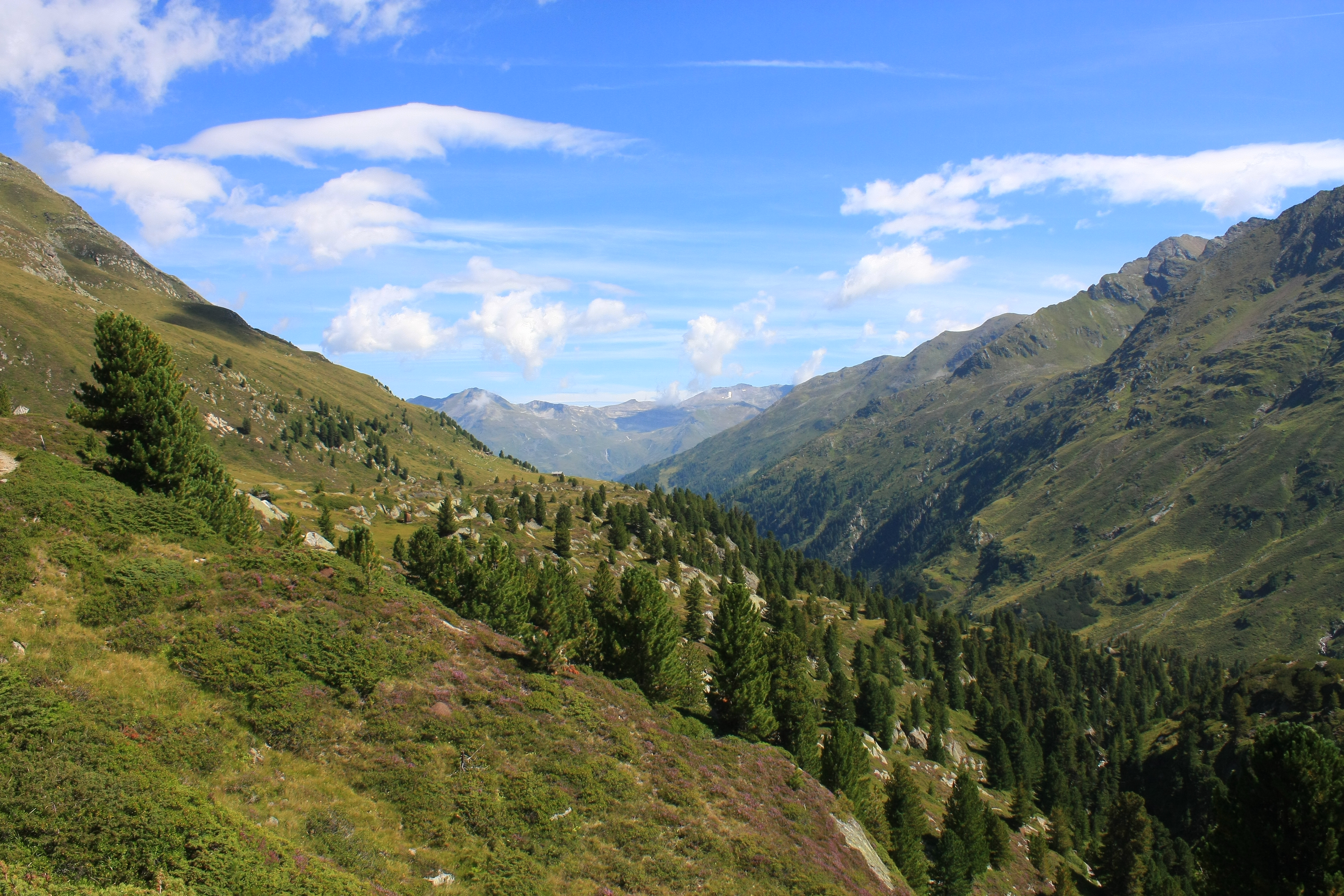 Gößnitzvalley, side valley of the Möllvalley, Carinthia, Austria